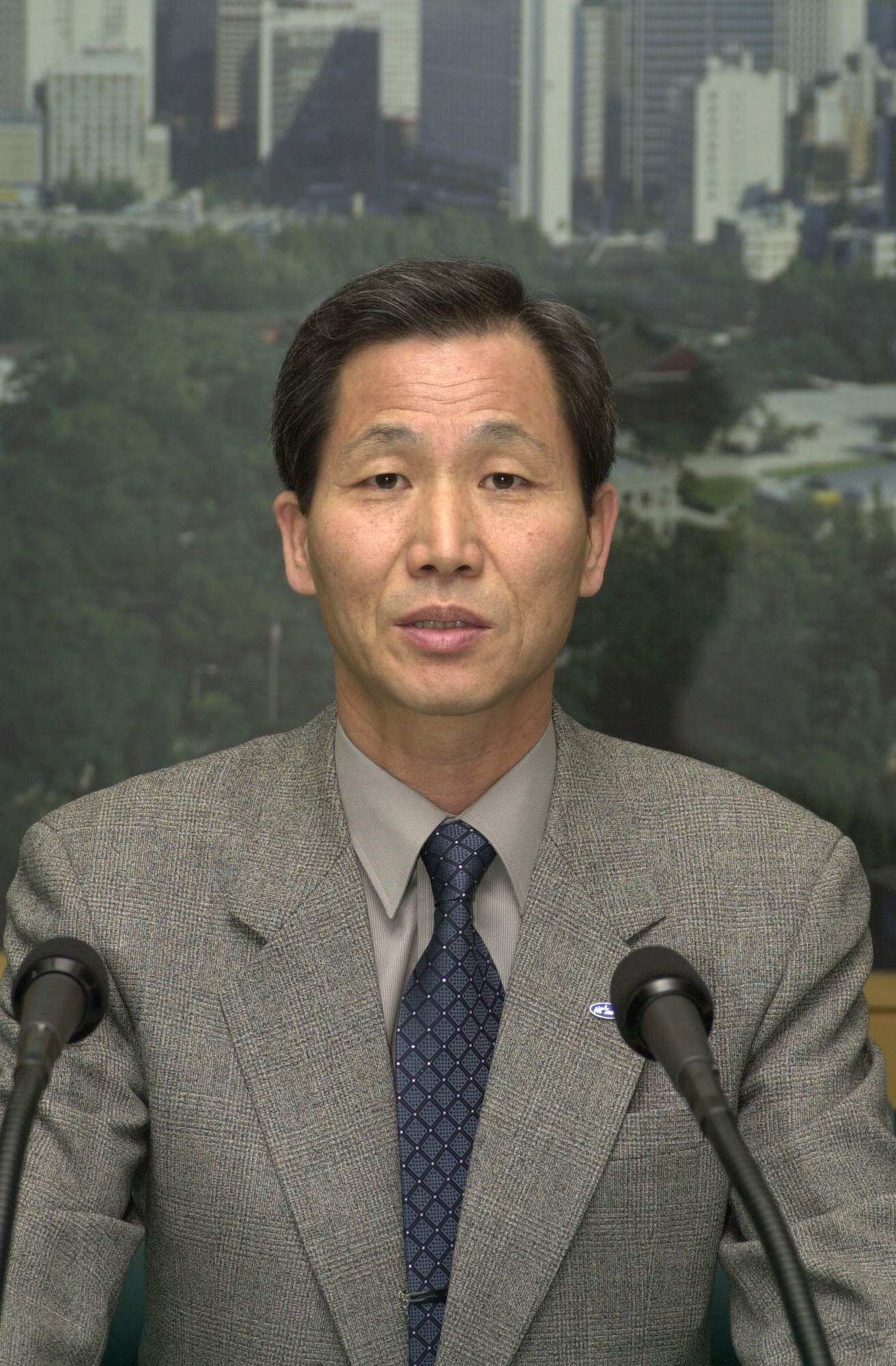 서울특별시 소방재난본부 소장 사진. photos of Seoul Metropolitan Fire&Disaster Headquarters. 이 파일은 크리에이티브 커먼즈 저작자표시-동일조건변경허락 4.0 국제 라이선스로 배포됩니다. 단 누구인지 구별 가능한 특정 인물이 사진에 포함되어 있을 경우 사용 전에 서울특별시 소방재난본부 및 해당 인물의 승인을 받으셔야합니다. 감사합니다. evidence of permission